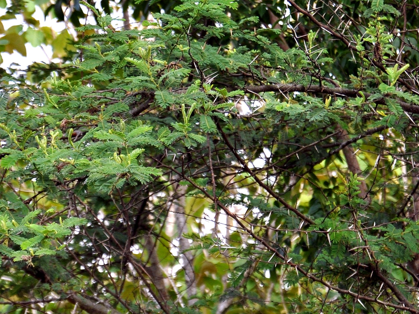 Acacia tomentosa, twigs and leaves; note the big thorns. Blora, Central Java, Indonesia.